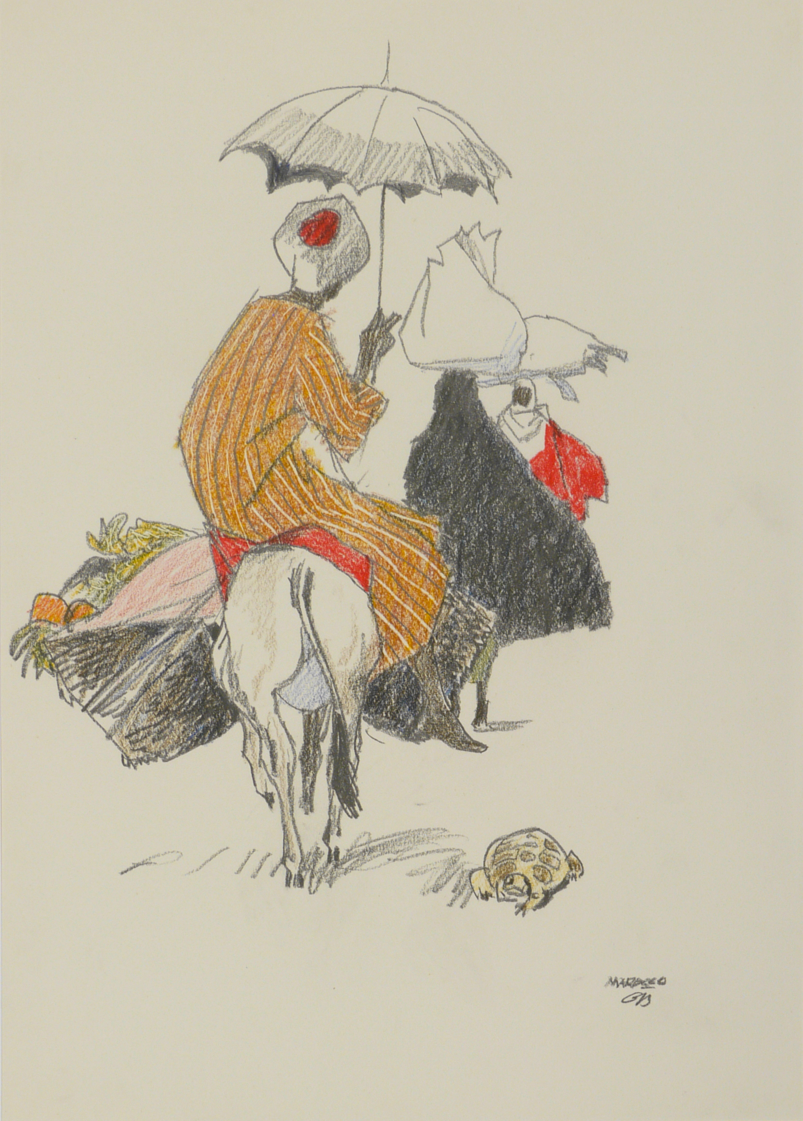 Morroccan Illustration by Günther T. Schulz